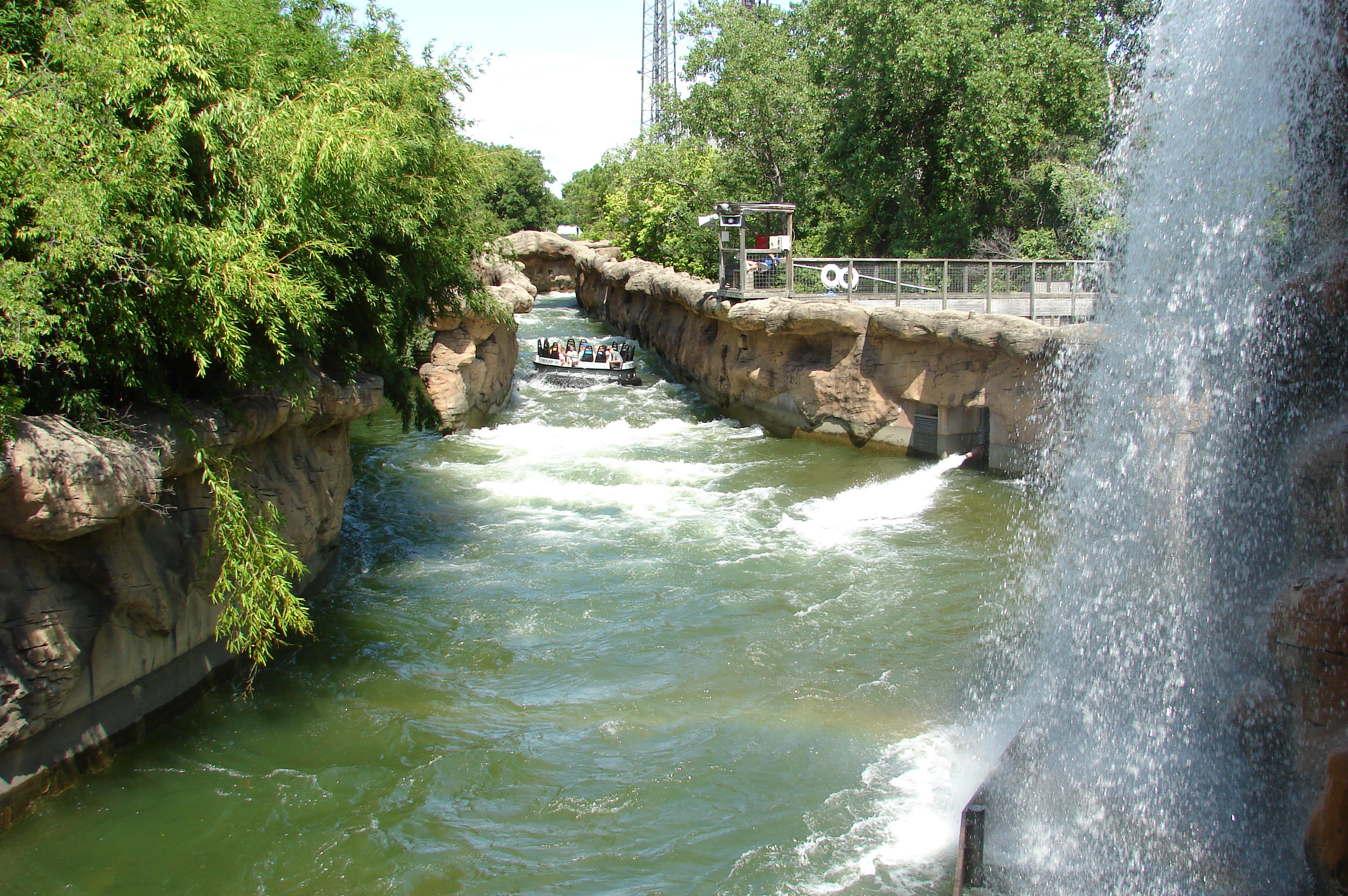 Roaring Rapids river rafting ride at Six Flags Over Texas theme park